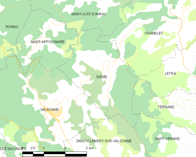 Map of French municipality